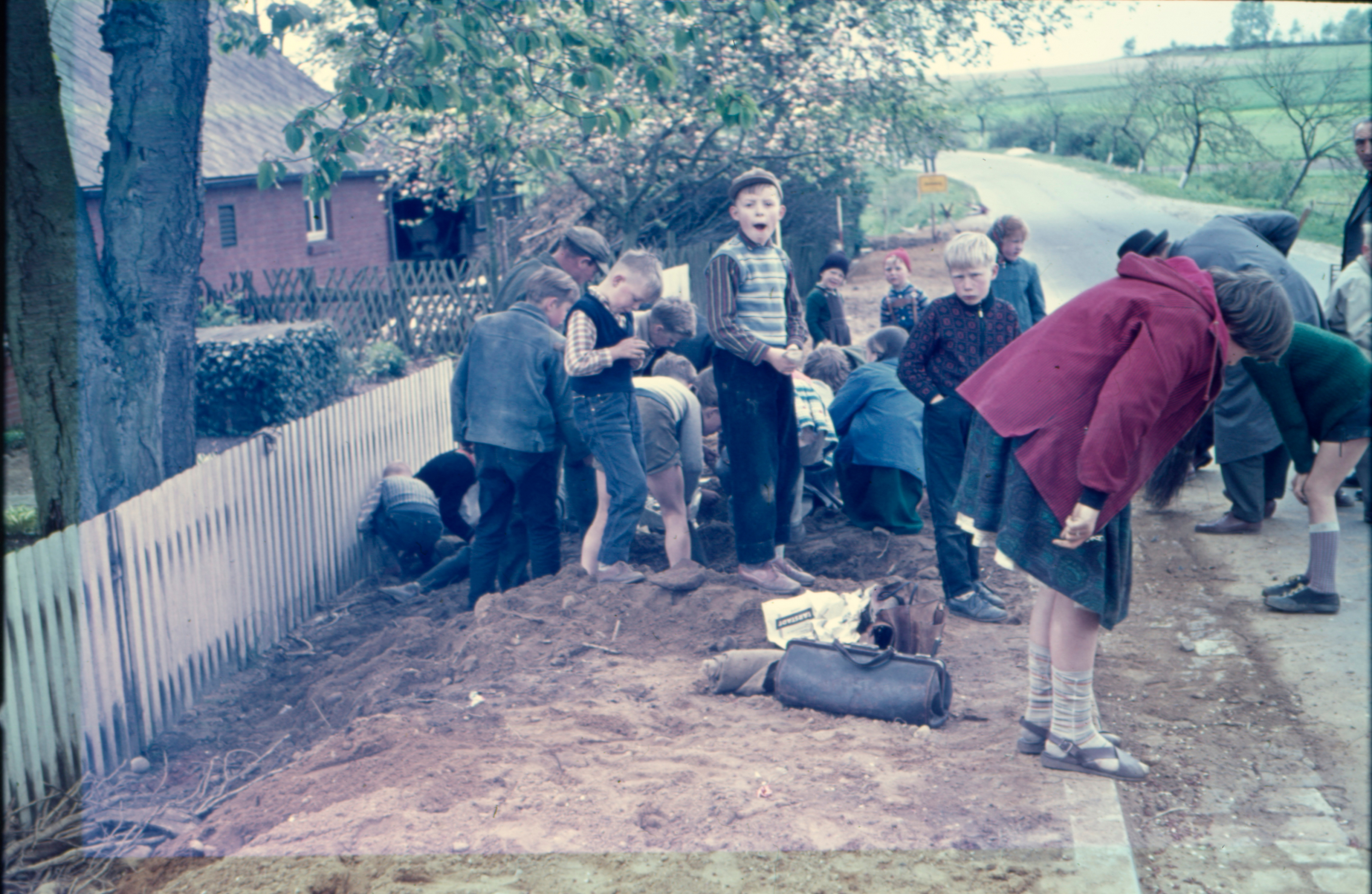 Search for further conis of the Asendorf coins hoard by pupils and villagers one day after the discovery.